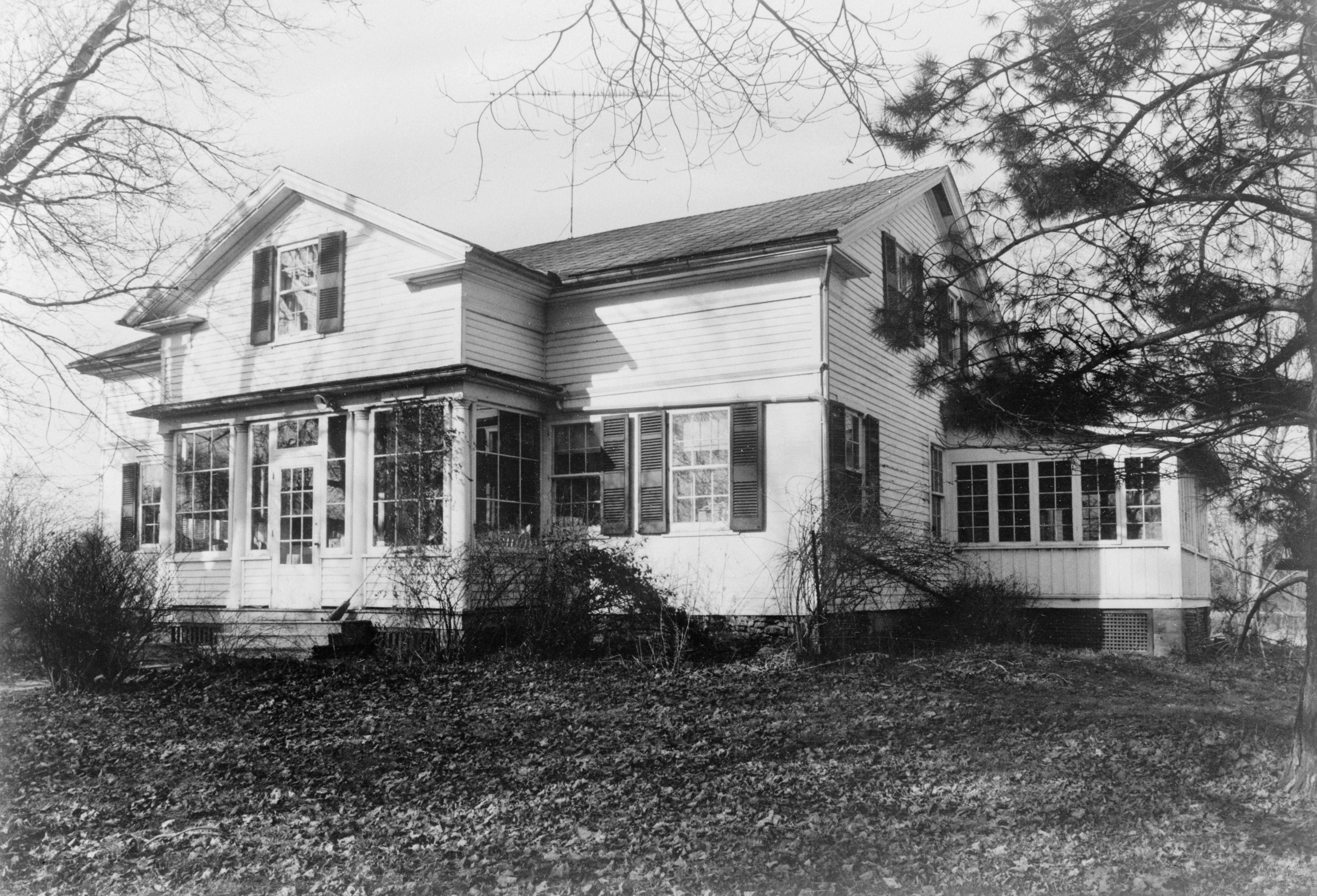 Front of the Abbott-Page House, located along Mason Road northeast of Milan in Milan Township, Erie County, Ohio, United States. Built in 1824, the house is listed on the National Register of Historic Places.